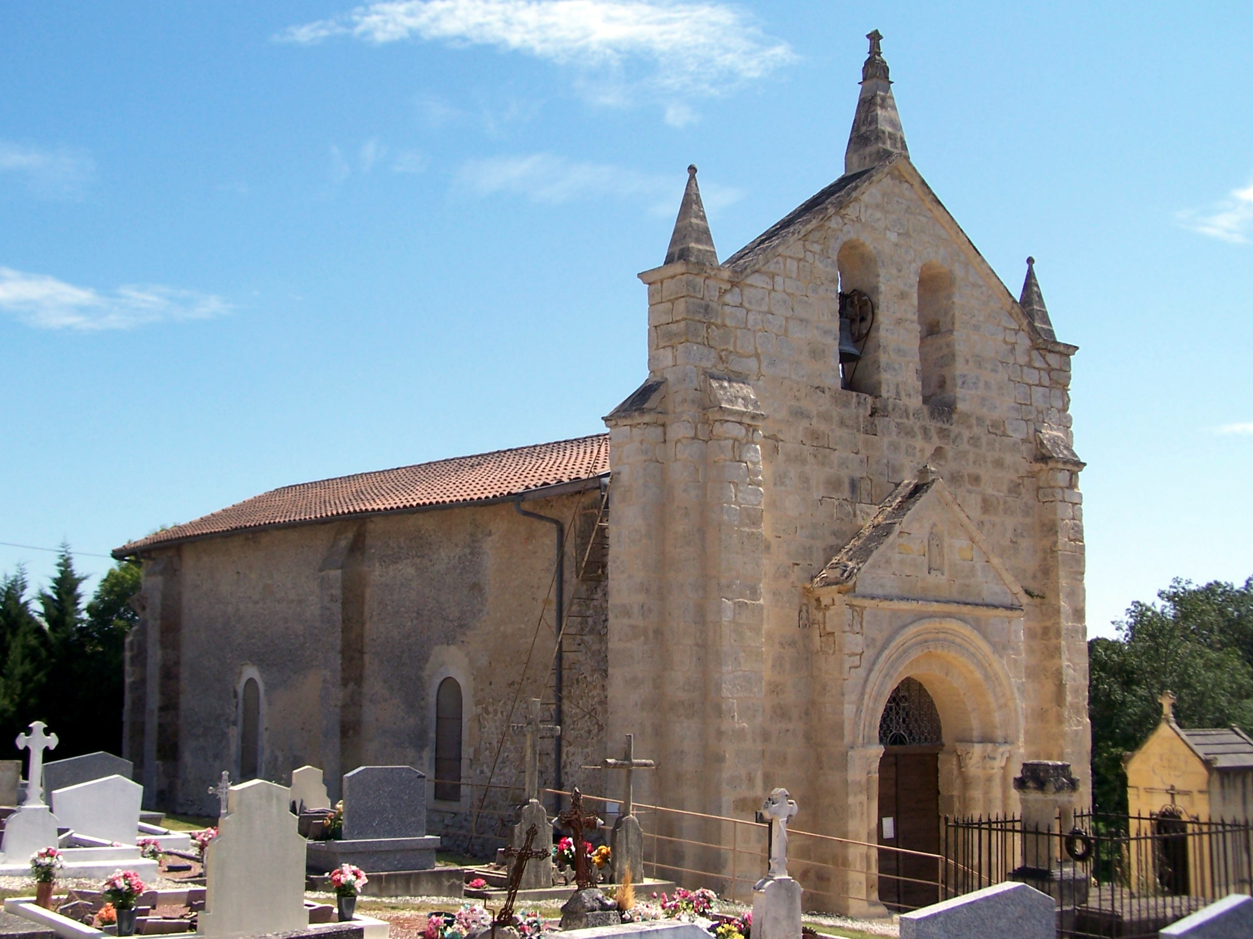 Church Saint-Pierre of Cleyrac (Gironde, France)